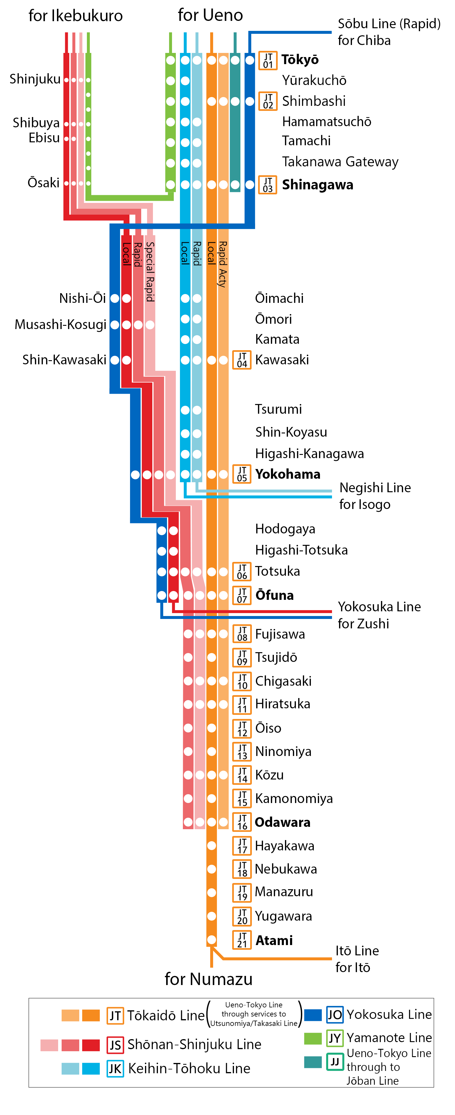 Tokaido Line (JR East) service pattern map